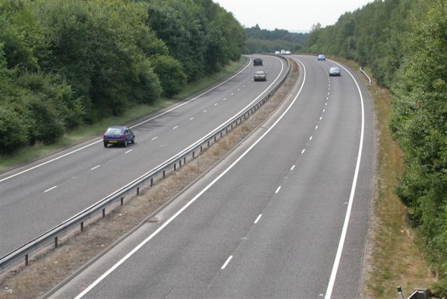 The A3 near Liphook, Hampshire, England where the B3004 crosses it at the edge of Liphook.